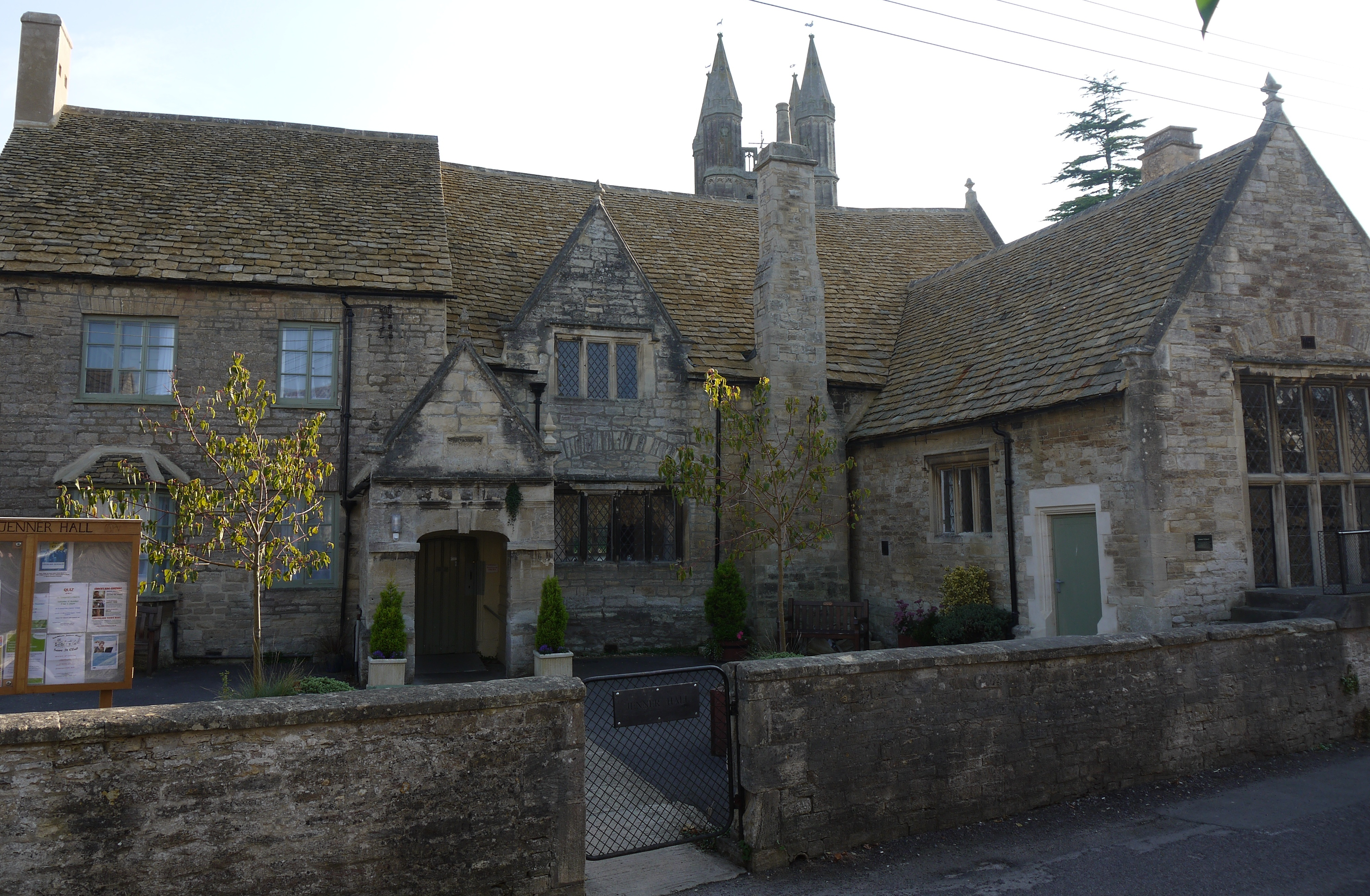 JENNER'S SCHOOL Wikidata has entry Q17546451 with data related to this building.